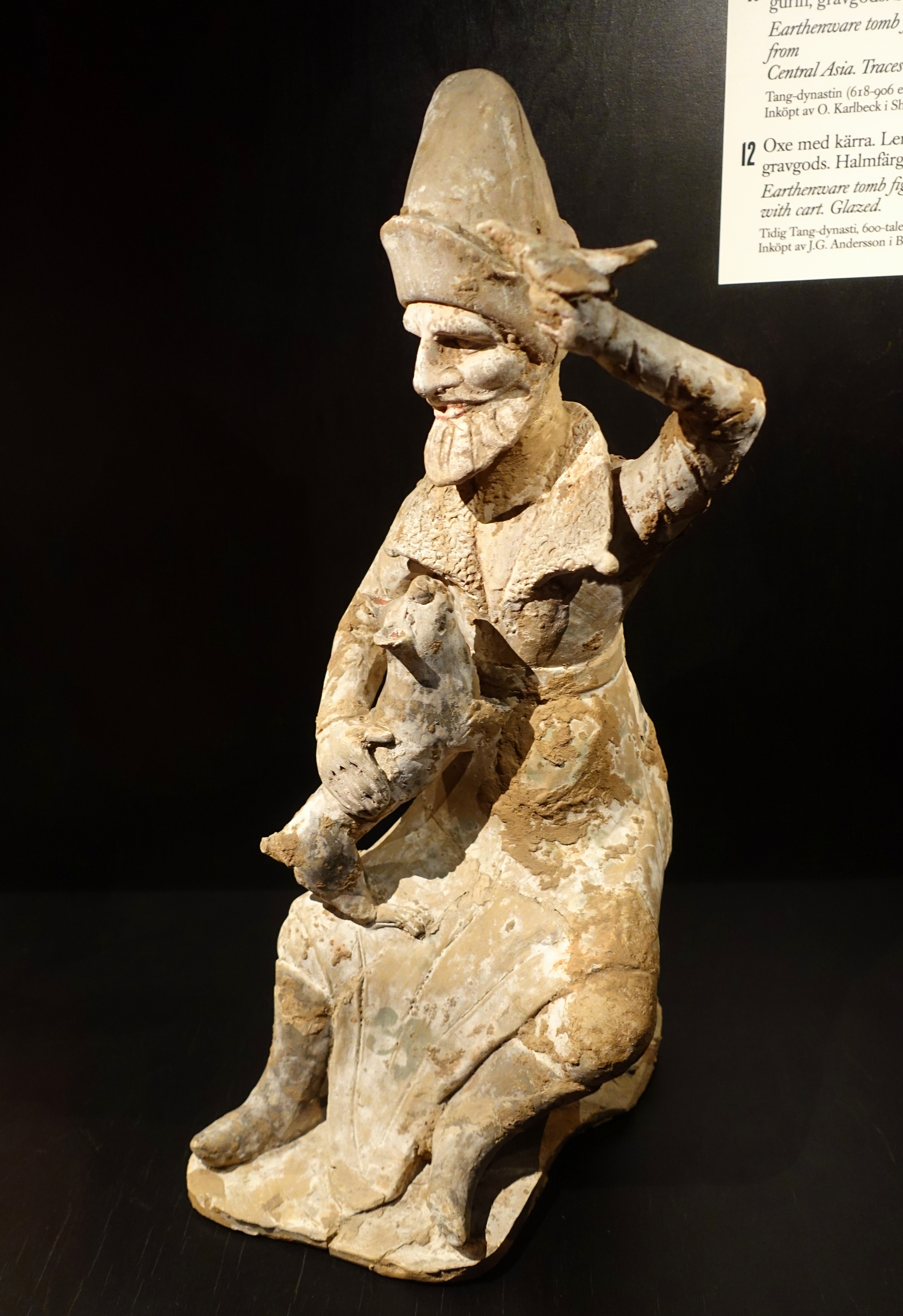 Exhibit in the Östasiatiska museet, Stockholm, Sweden. This artwork is old enough so that it is in the public domain.